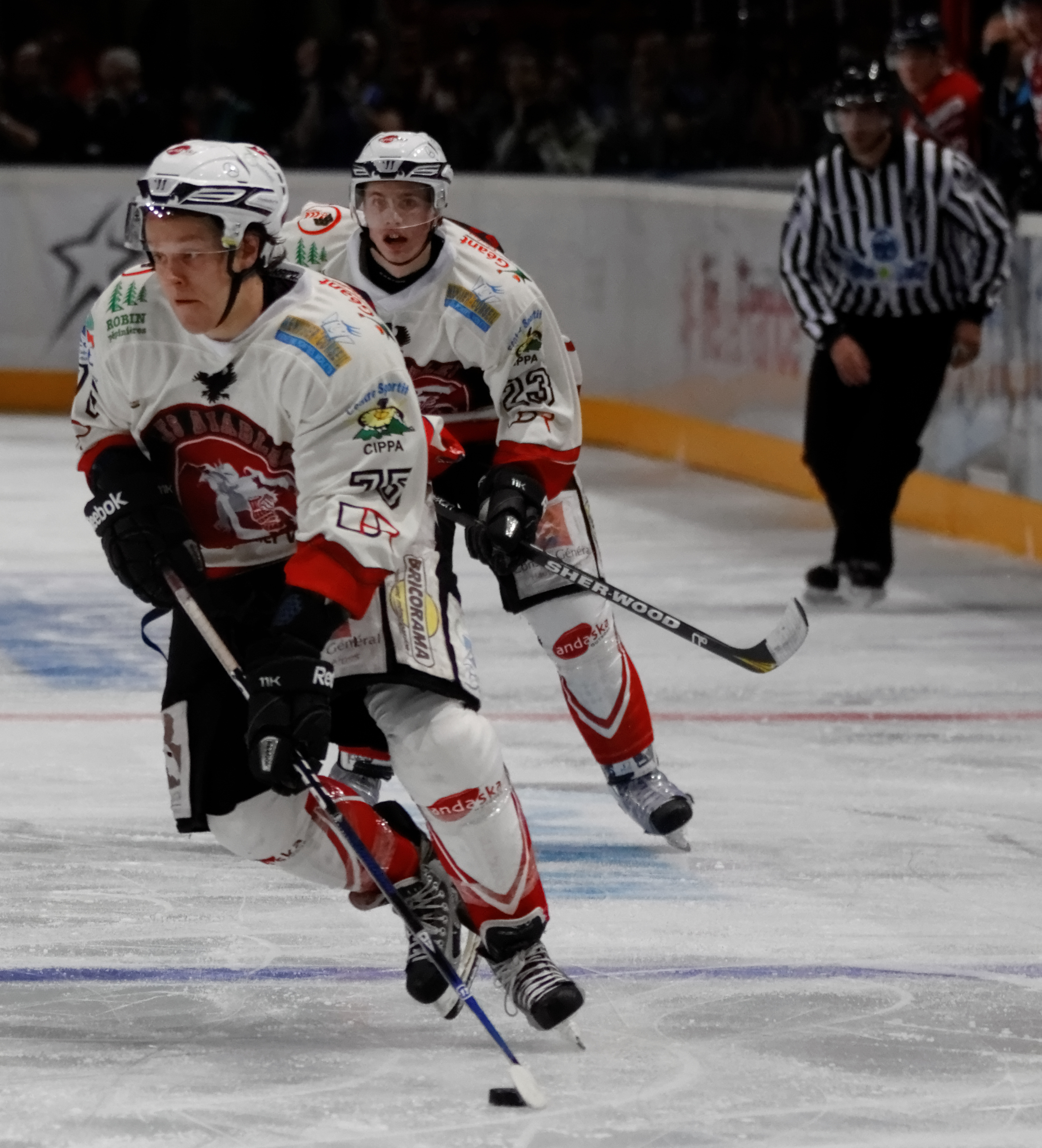 Final of the Ice Hockey French Cup 2013.